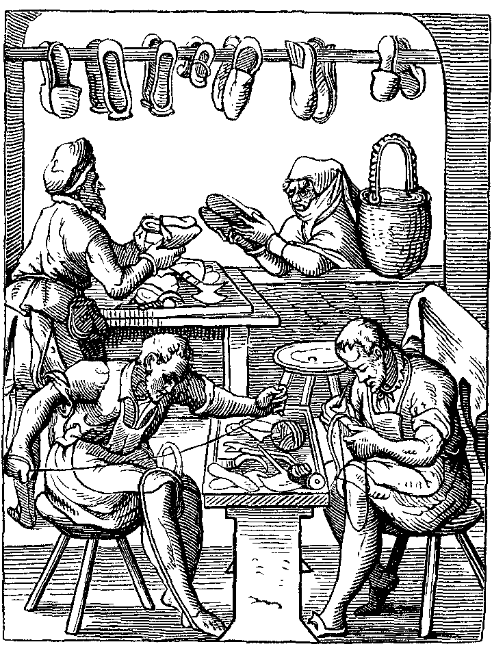 Shoemakers from Das Ständebuch (The Book of Trades), 1568